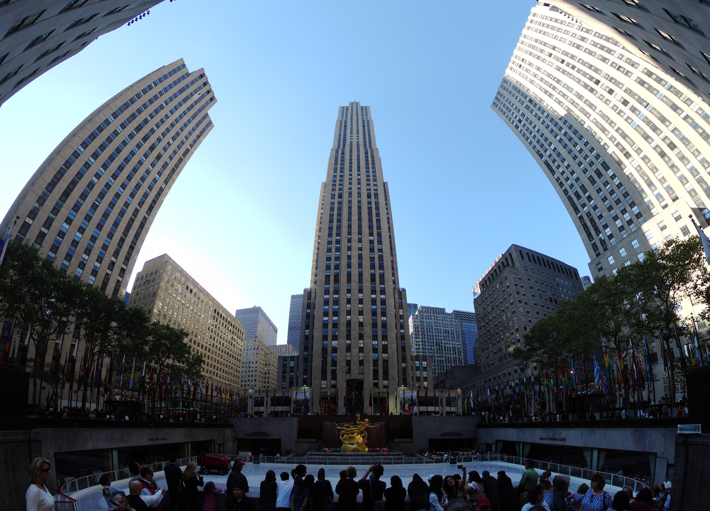 Please, have this description accessible to all by translating it in different languages.